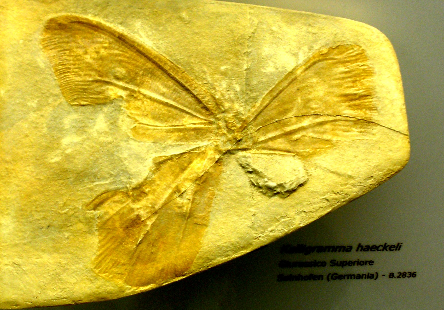 Took the photo at Museo di Storia Naturale di Bergamo